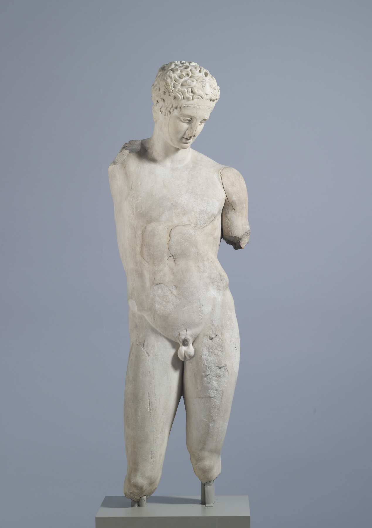 The satyr exemplifies the carefree world of Dionysus, god of wine. The original statue, now lost, was by the celebrated artist Praxiteles. The goat-eared satyr pours from a jug that was held in his upraised right hand into a shallow dish he held below. The sinuous curves and unmuscled adolescent body are hallmarks of Praxiteles' most celebrated works, as are the grace and charm of the subject.